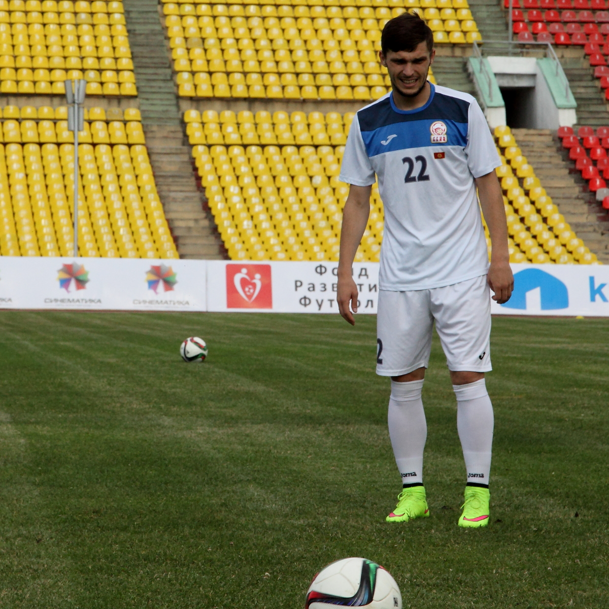 Anton Zemlianukhin, while training for Kyrgyzstan national football team in June 2015.